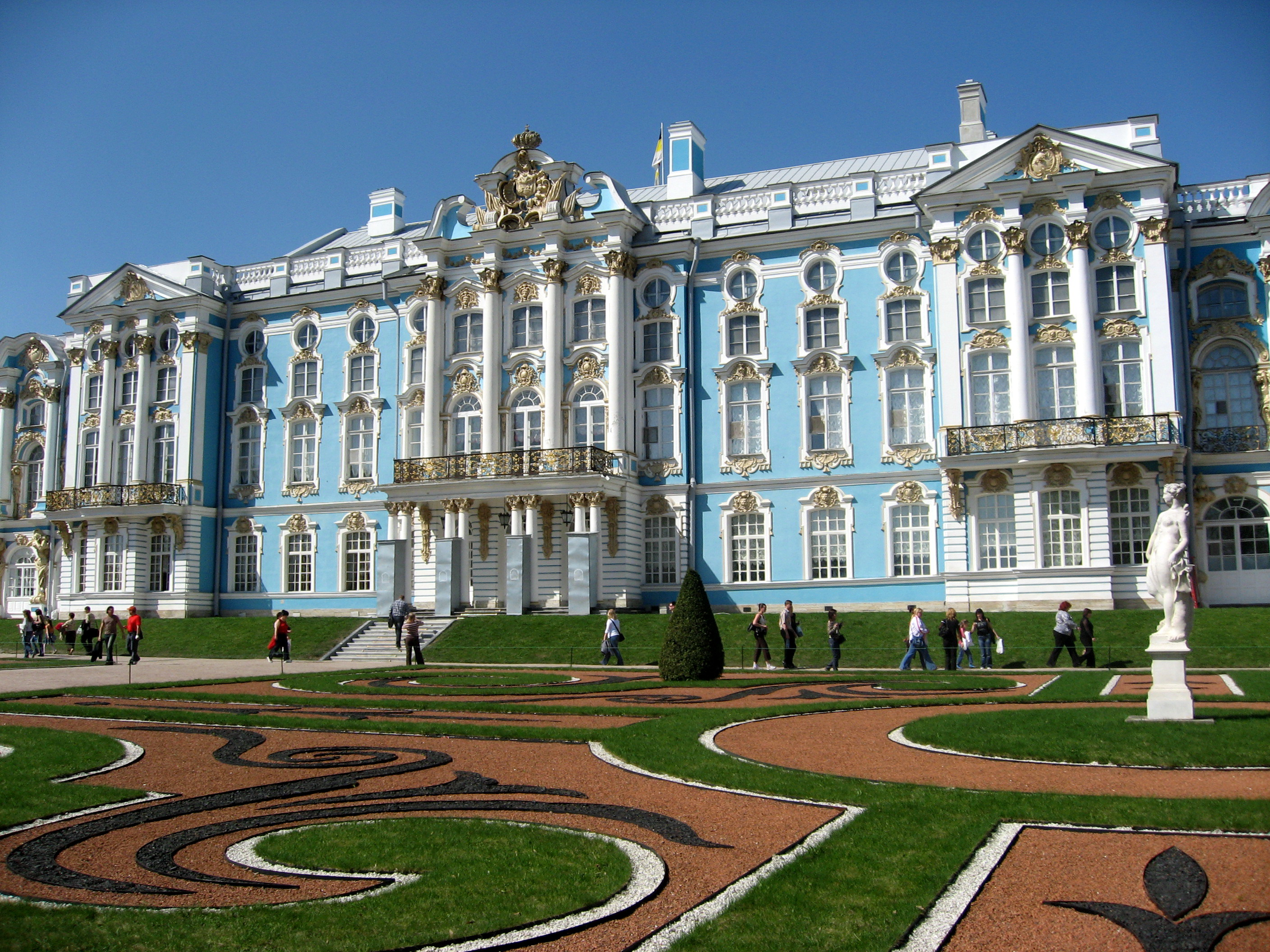 Pushkin (Russia), Catherine Palace